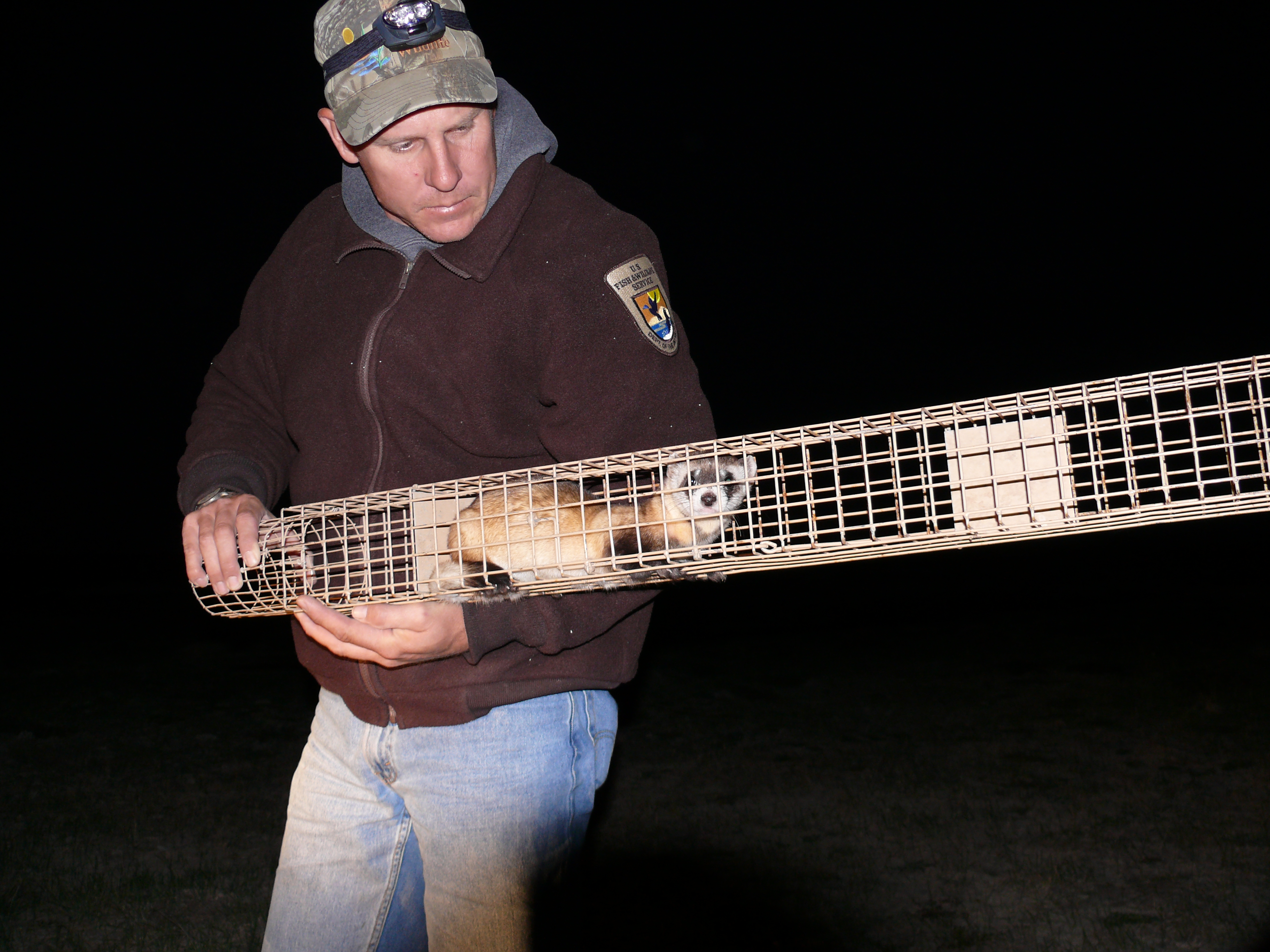 In preparation for starting our own reintroduced population of black-footed ferrets in Kansas, Tony Ifland of Kirwin NWR and I spent time learning capture methods in the Conata Basin of South Dakota. Credit: Dan Mulhern / USFWS Photo Contest Entry #138